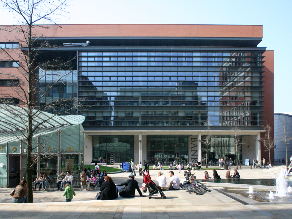 Brindleyplace, Birmingham, England.